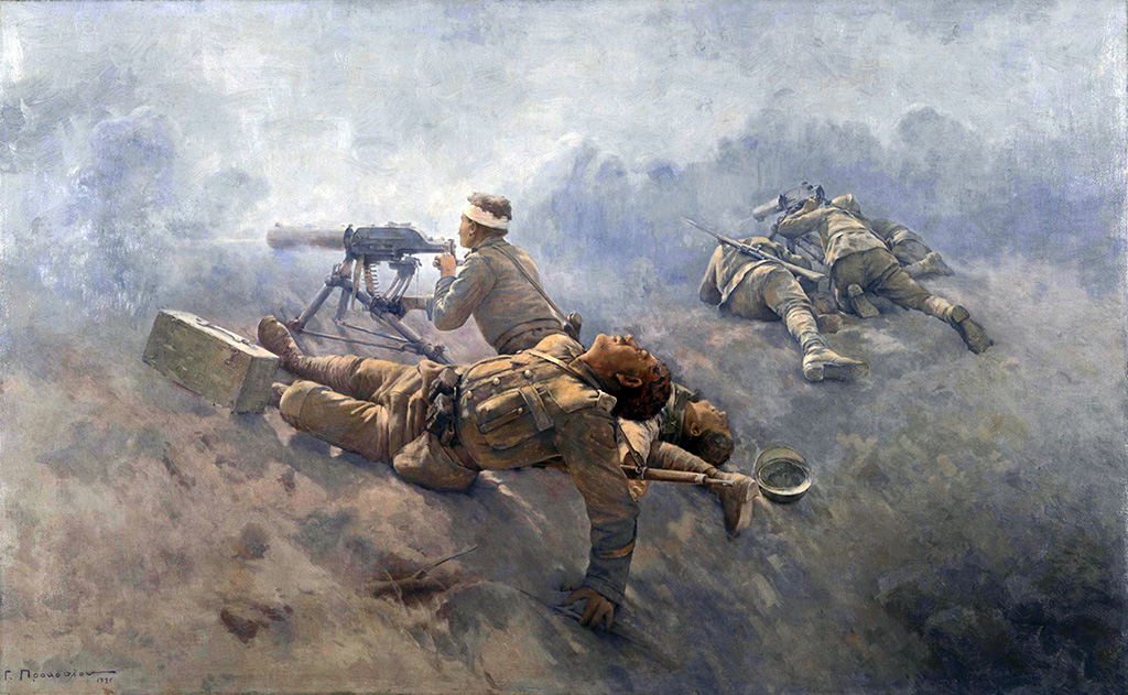 "To the Last Man" (Μέχρις Εσχάτων), 1921, Georgios Prokopiou, Gallery of the National Bank of Greece. The painting depicts Greek infantrymen in Asia Minor, 1921, during the Greco-Turkish WarTürkçe: Yunanların gözünden Türk Kurtuluş Savaşı'nın Batı Cephesi ("Küçük Asya Felaketi")